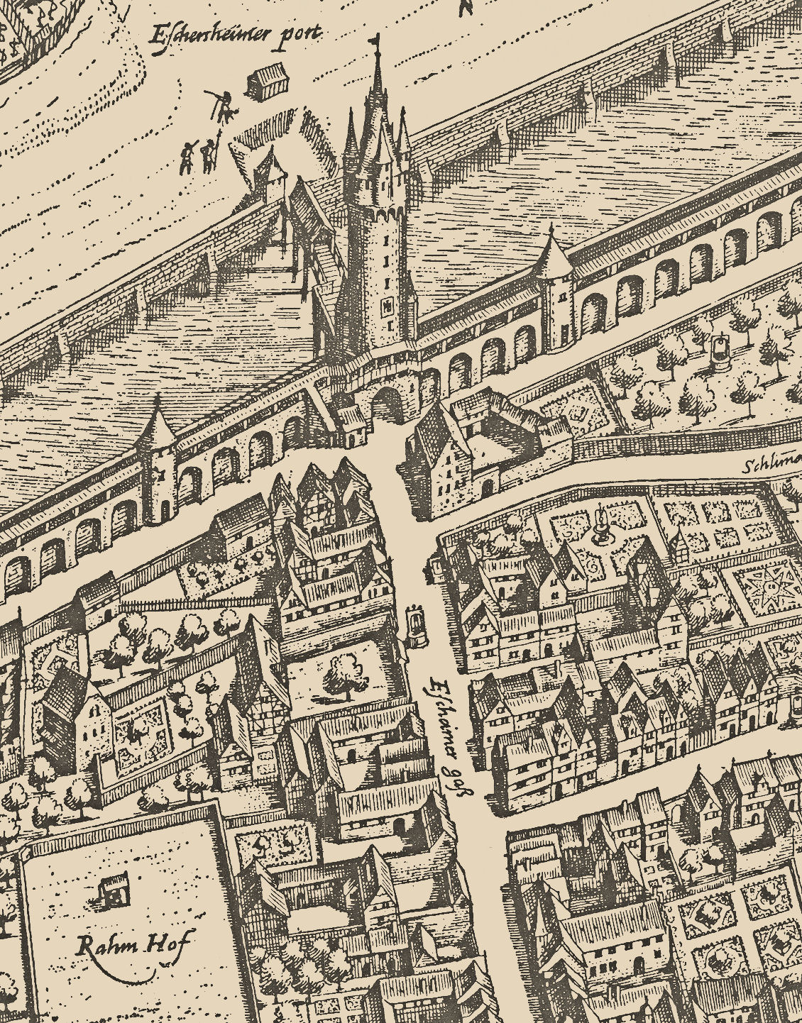 Details of the map of the city of Frankfurt am Main, Germany. Medieval citywall and Eschenheimer Tor (one of the northern gate towers)